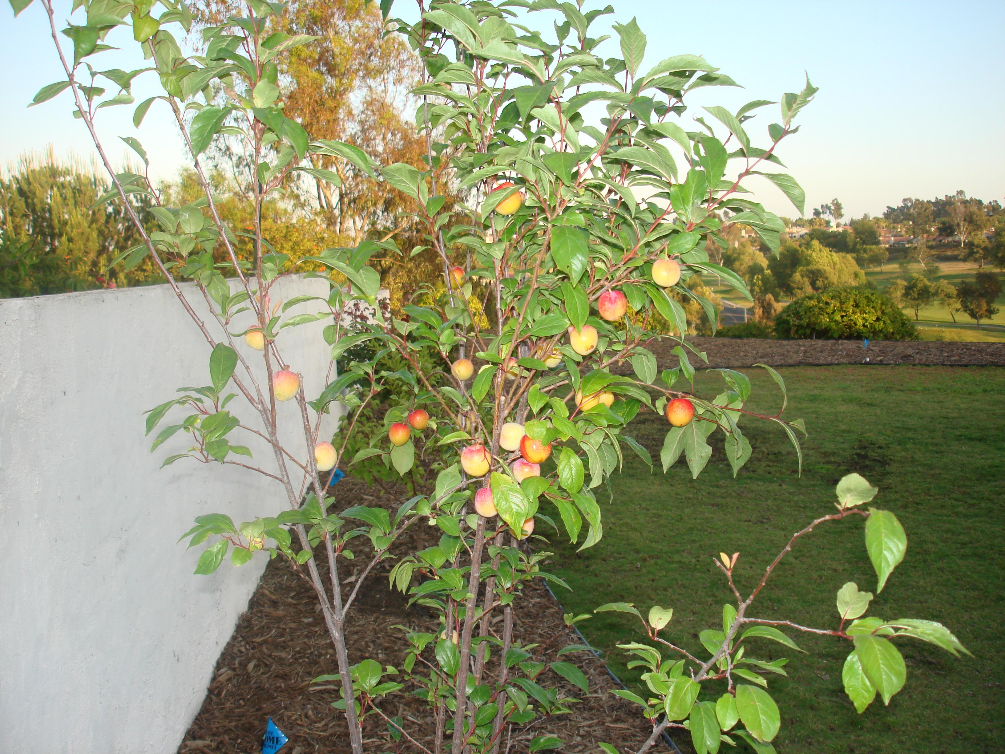 Splash pluot on tree.